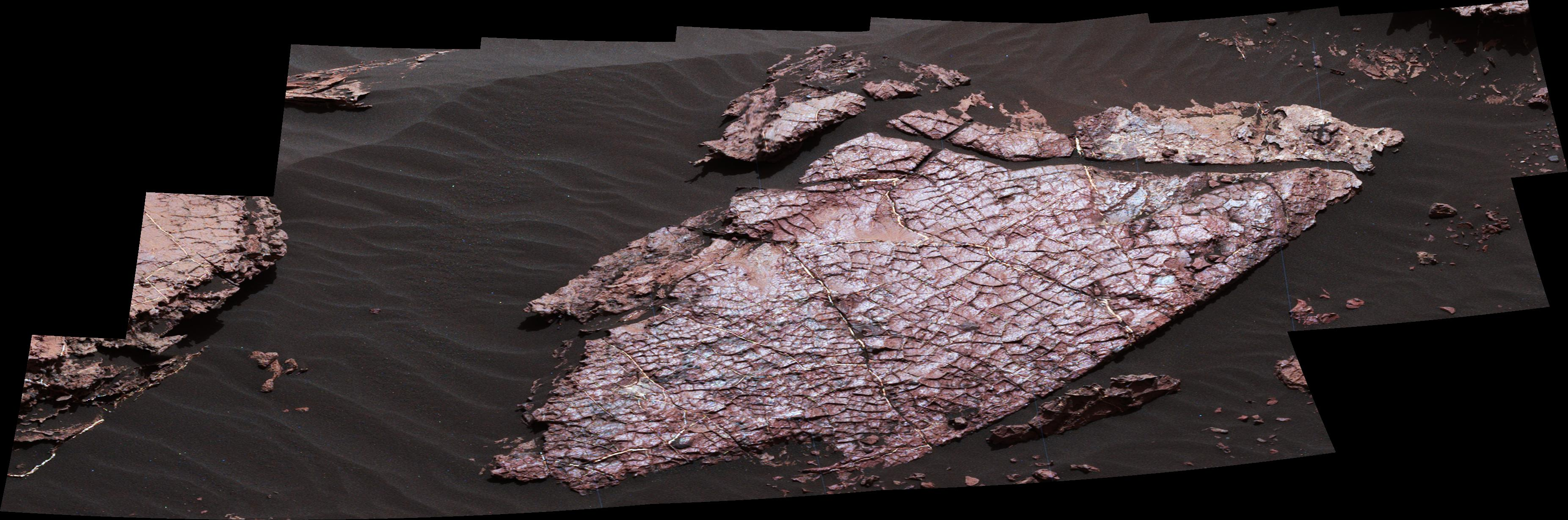 This view of a Martian rock slab called "Old Soaker," which has a network of cracks that may have originated in drying mud, comes from the Mast Camera (Mastcam) on NASA's Curiosity Mars rover. The location is within an exposure of Murray formation mudstone on lower Mount Sharp inside Gale Crater. Mud cracks would be evidence of a time more than 3 billion years ago when dry intervals interrupted wetter periods that supported lakes in the area. Curiosity has found evidence of ancient lakes in older, lower-lying rock layers and also in younger mudstone that is above Old Soaker. Several images from Mastcam's left-eye camera are combined into this mosaic view. They were taken on Dec. 20, 2016, during the 1,555th Martian day, or sol, of Curiosity's work on Mars. The Old Soaker slab is about 4 feet (1.2 meters) long. Figure 1 includes a scale bar of 30 centimeters (12 inches). The scene is presented with a color adjustment that approximates white balancing, to resemble how the rocks and sand would appear under daytime lighting conditions on Earth. Malin Space Science Systems, San Diego, built and operates MAHLI. NASA's Jet Propulsion Laboratory, a division of the Caltech in Pasadena, California, manages the Mars Science Laboratory Project for the NASA Science Mission Directorate, Washington, and built the project's Curiosity rover. For more information about Curiosity, visit and